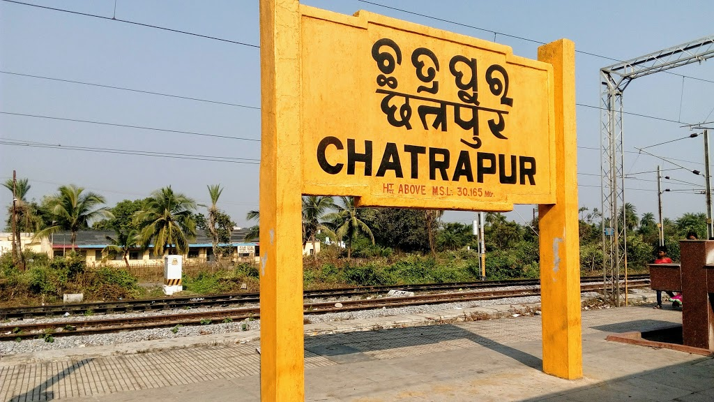 This is the Picture of chatrapur main railway station